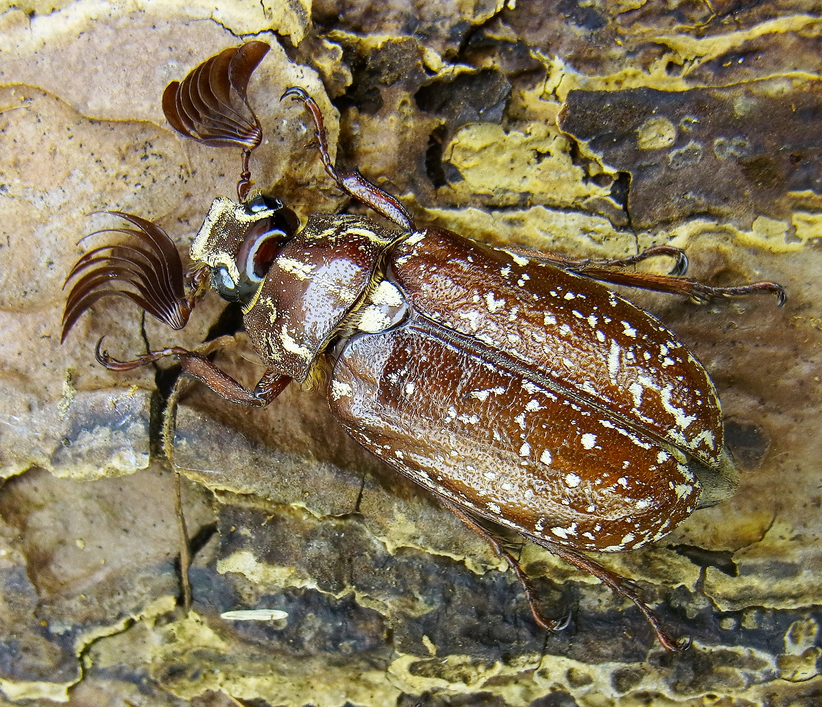 Polyphylla fullo from Hungary, Kiskunmajsa, at 2012-06-12